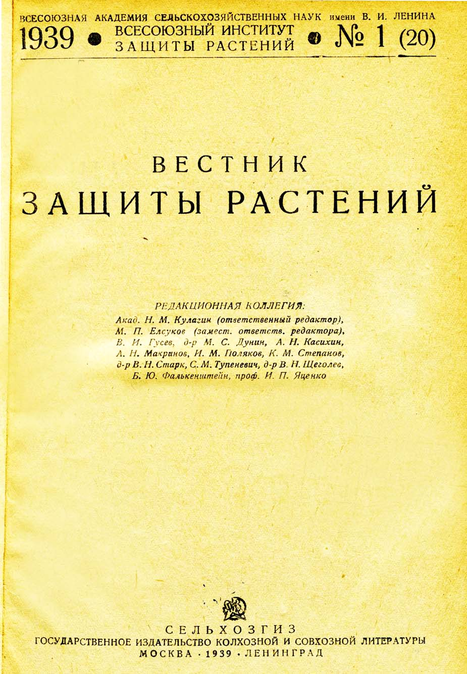 Plant Protection News, 1939